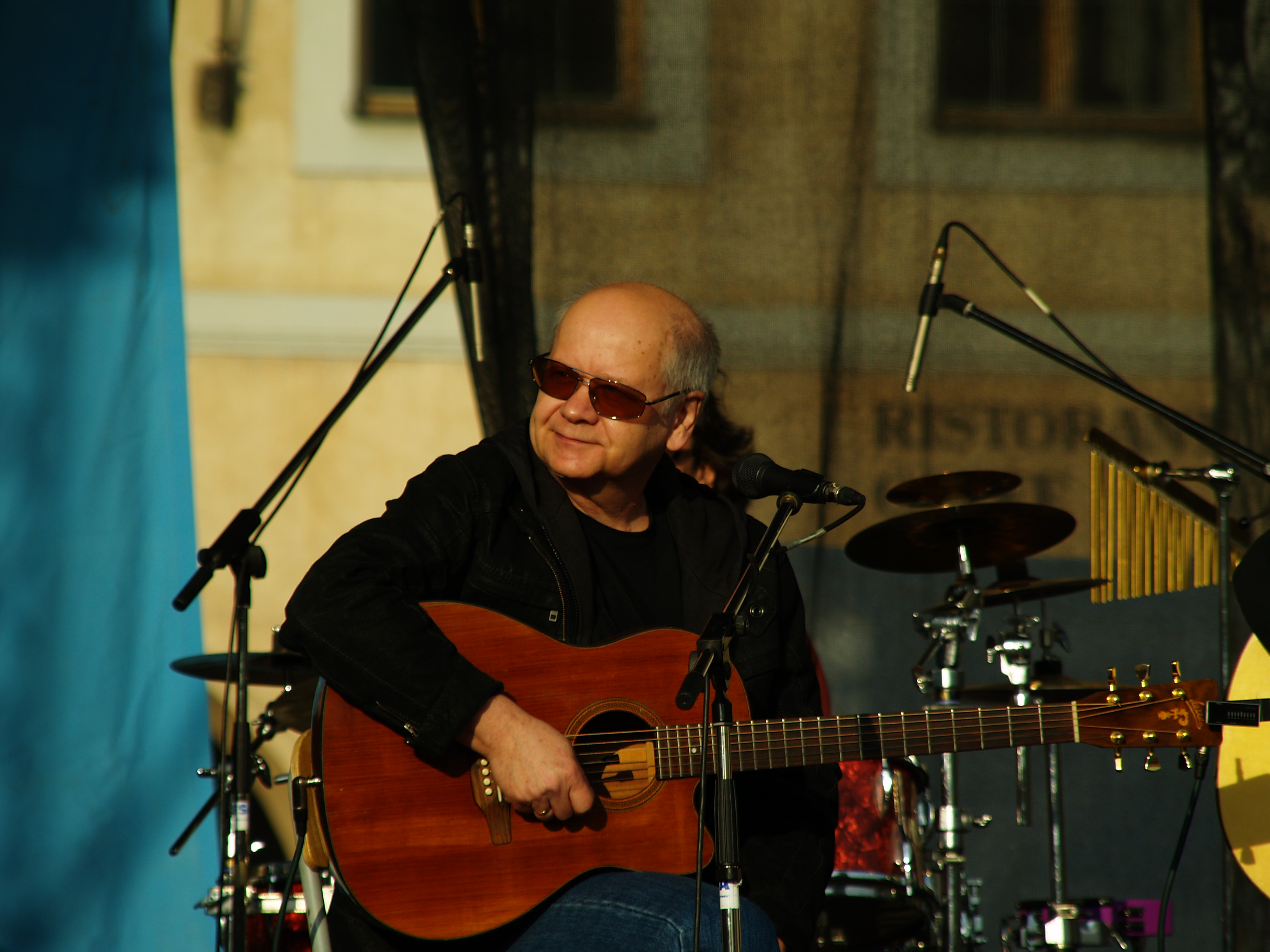 Radim Hladik and Blue Effect concert at Old town square at Prague on 8th of May 2010